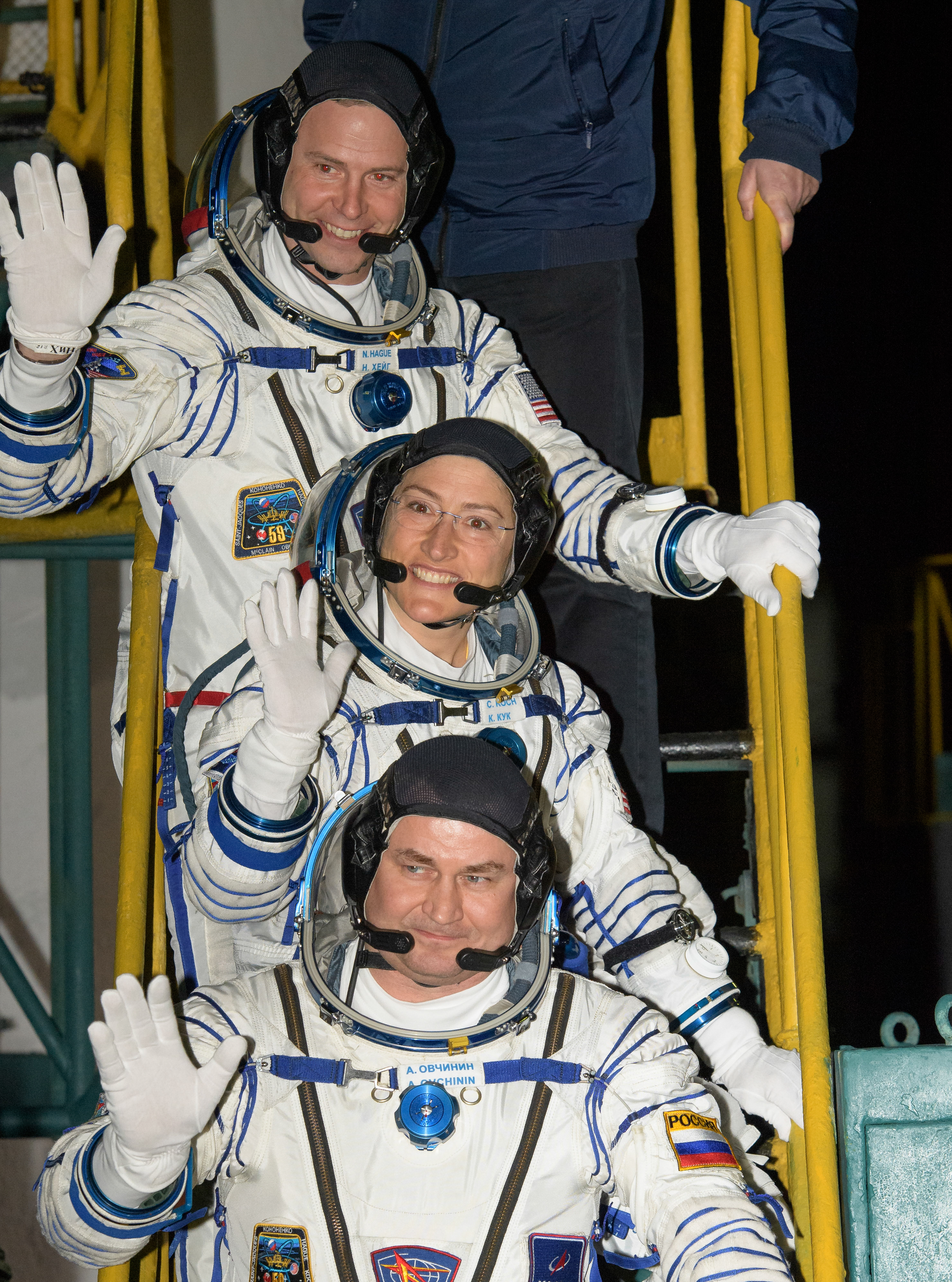 Expedition 59 crewmembers Nick Hague of NASA, top, Christina Koch of NASA, center, and Alexey Ovchinin of Roscosmos wave farewell prior to boarding the Soyuz MS-12 spacecraft for launch, Thursday, March 14, 2019 at the Baikonur Cosmodrome in Kazakhstan. Hague, Koch, and Ovchinin will spend six-and-a-half months living and working aboard the International Space Station.